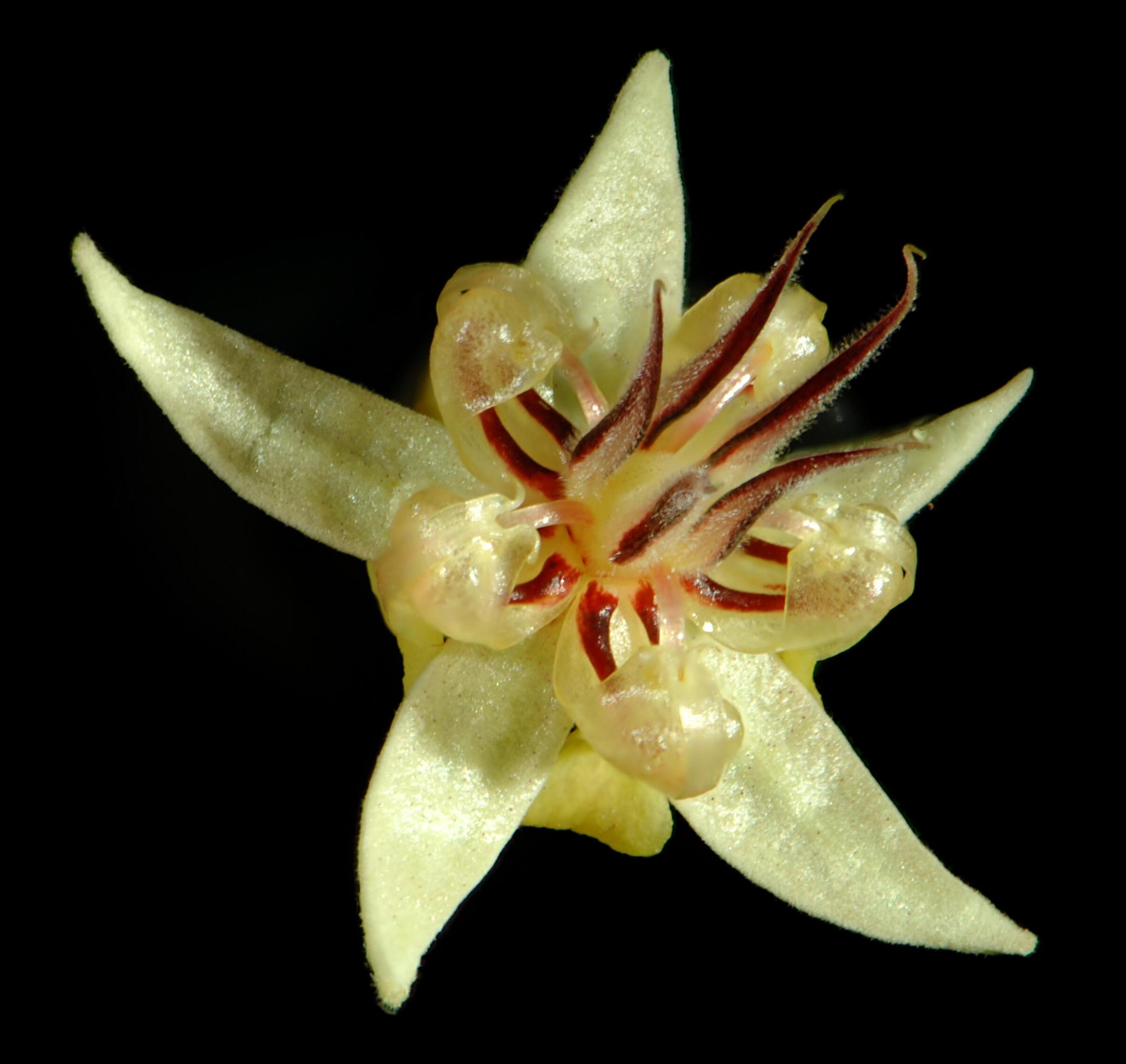 Macrophotography of theobroma cacao done at the university of vienna, department of Cell Imaging and Ultrastructure Research, supervised by Helmuth Goldammer, with my collegue Wilhelm